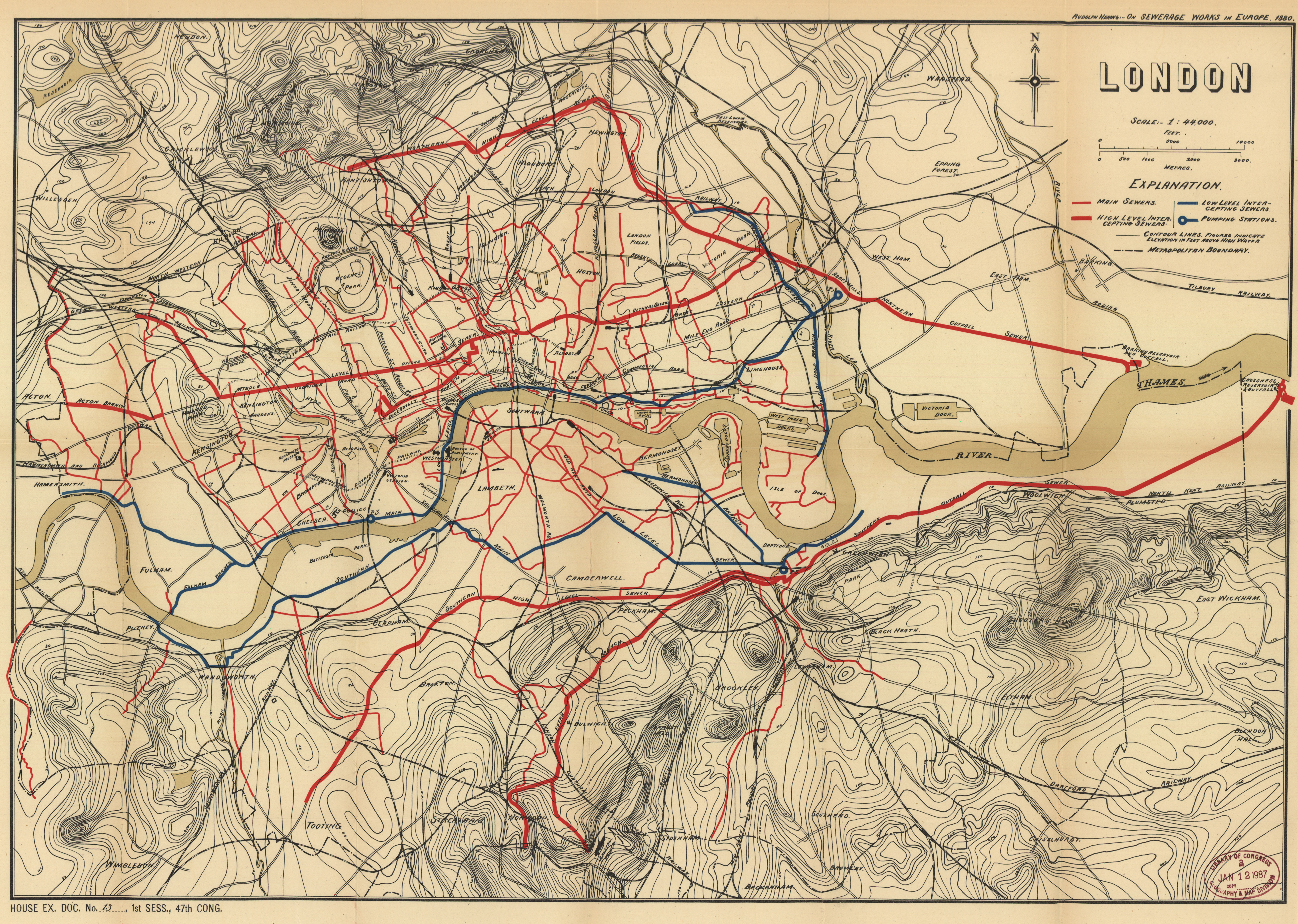 Rudolph Hering:On sewerage works in Europe, 1880.